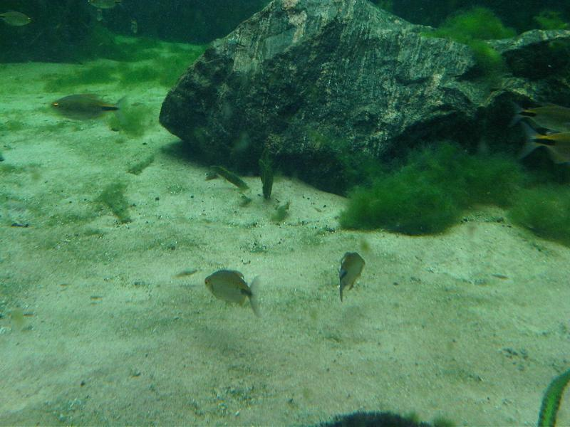 Brycinus longipinnis in Kew Gardens, England.